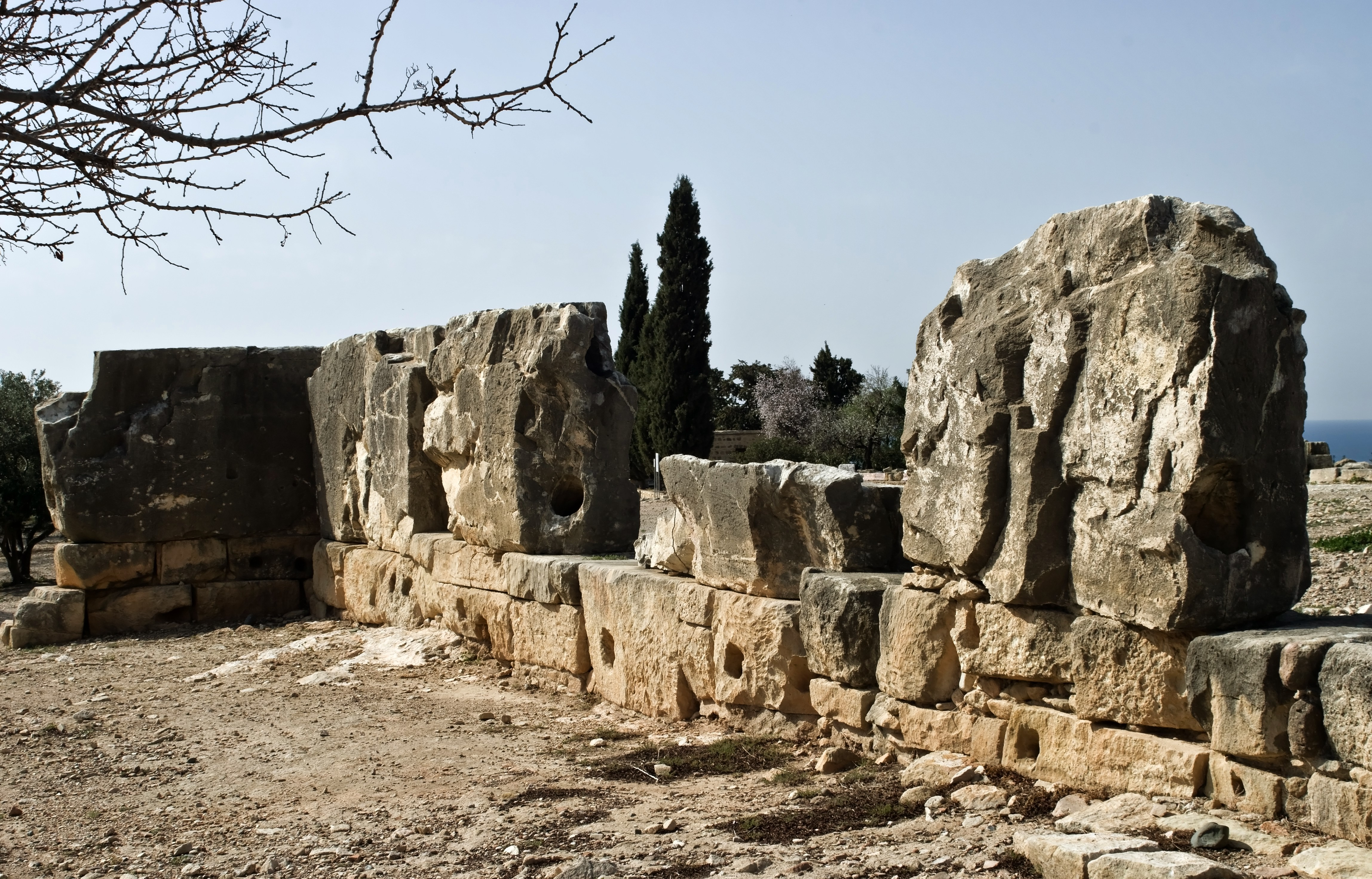 The Sanctuary of Aphrodite in Kouklia, Cyprus.